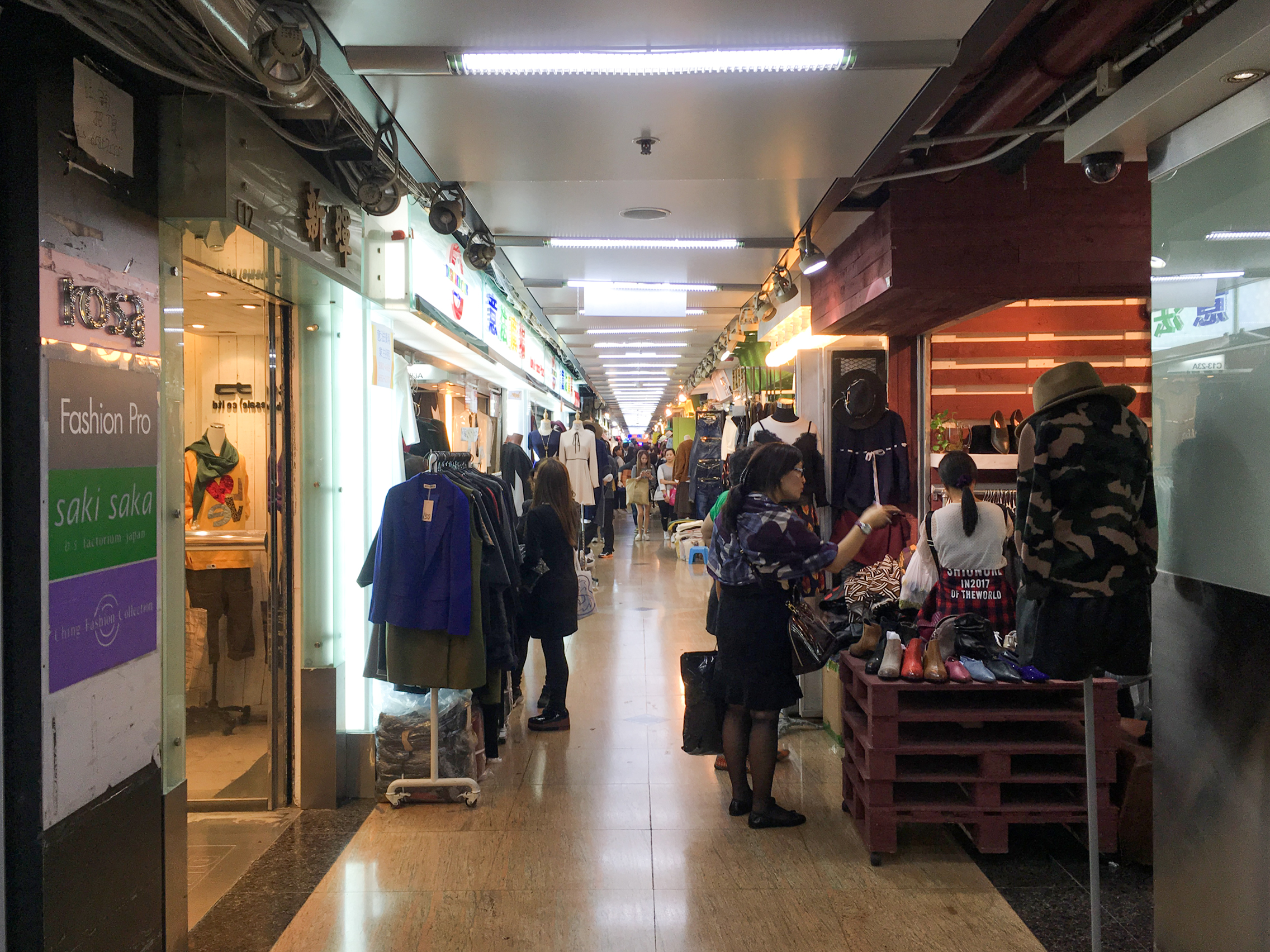 Hong Kong Industrial Centre Interior